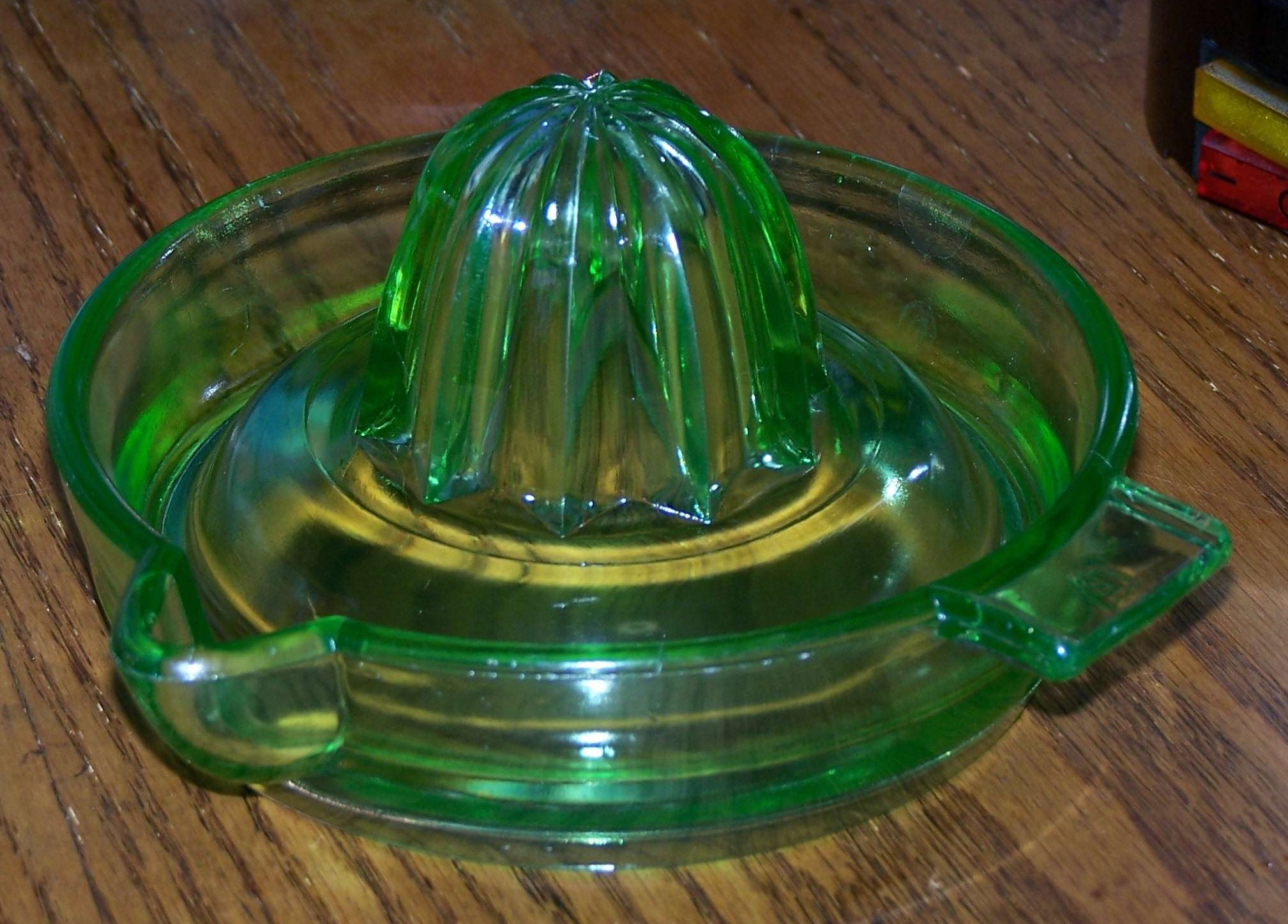 Depression Glass Juicer